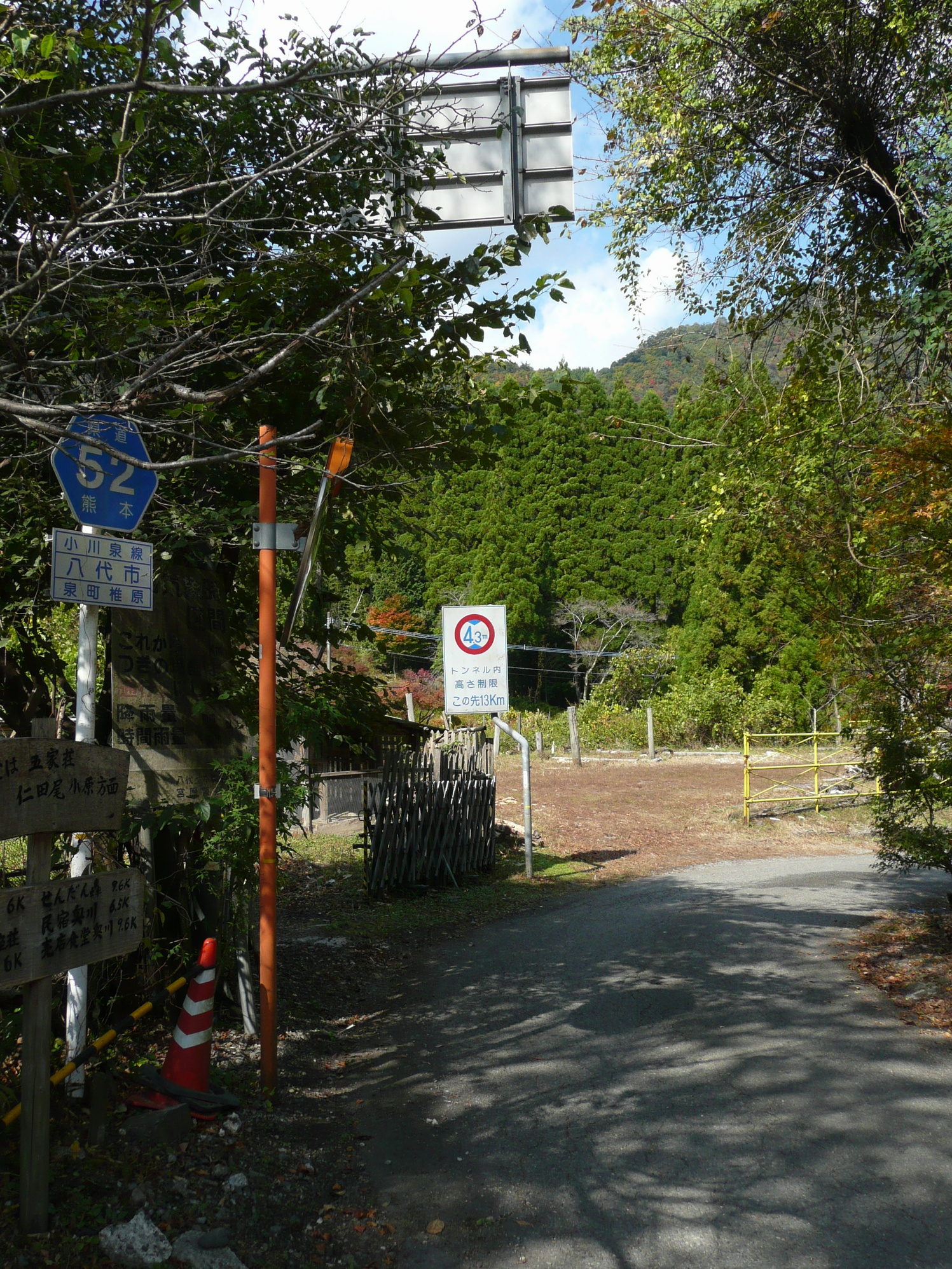 Kumamoto Prefectural Road No.52 Ends (Shiibaru, Izumi, Yatsushiro City, Kumamoto, Japan)